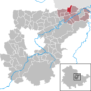 Reisdorf in Thuringia - District Weimarer Land